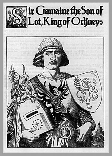 Pyle, Howard, "Sir Gawain the Son of Lot, King of Orkney" from: The Story of King Arthur and His Knights. New York: Scribner's, 1903. University of Rochester.